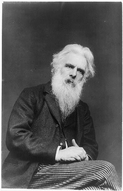 Johnston, Frances Benjamin,, 1864-1952,, photographer. [Eadweard Muybridge portrait] [between ca. 1890 and ca. 1910] 1 photographic print. Notes: Title and other information transcribed from caption card and item. Frances Benjamin Johnston Collection (Library of Congress). Three-quarter length, seated portrait. Subjects: Muybridge, Eadweard,--1830-1904. Format: Portrait photographs--1890-1910. Photographic prints--1890-1910. Rights Info: No known restrictions on reproduction. Repository: Library of Congress, Prints and Photographs Division, Washington, D.C. 20540 USA, v/loc.pnp/pp.print Part Of: Johnston, Frances Benjamin, 1864-1952. Portraits (DLC) 88707449 Higher resolution image is available (Persistent URL): Call Number: LOT 11735 [item]